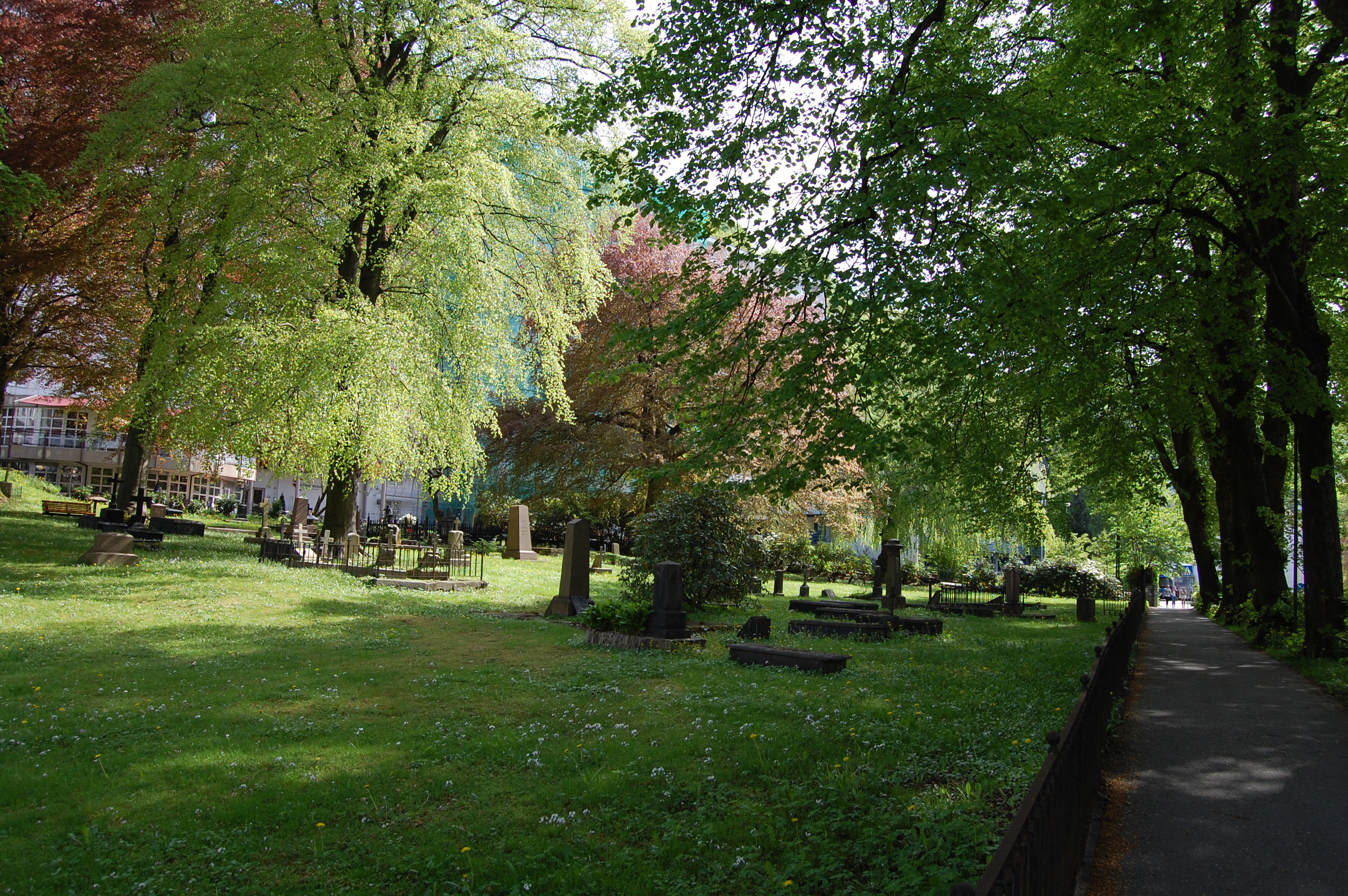 Sankt Jacobs kirkegård, Bergen, Norway